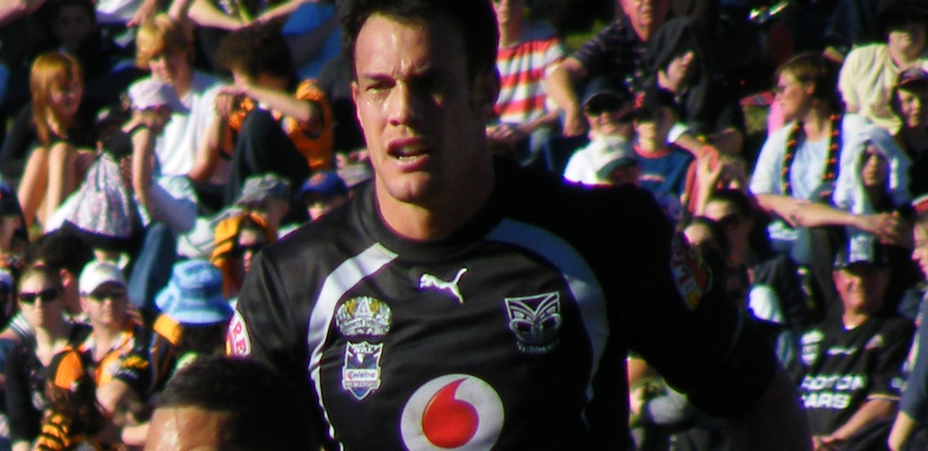 Wests Tiger's playmaker Logan Swann